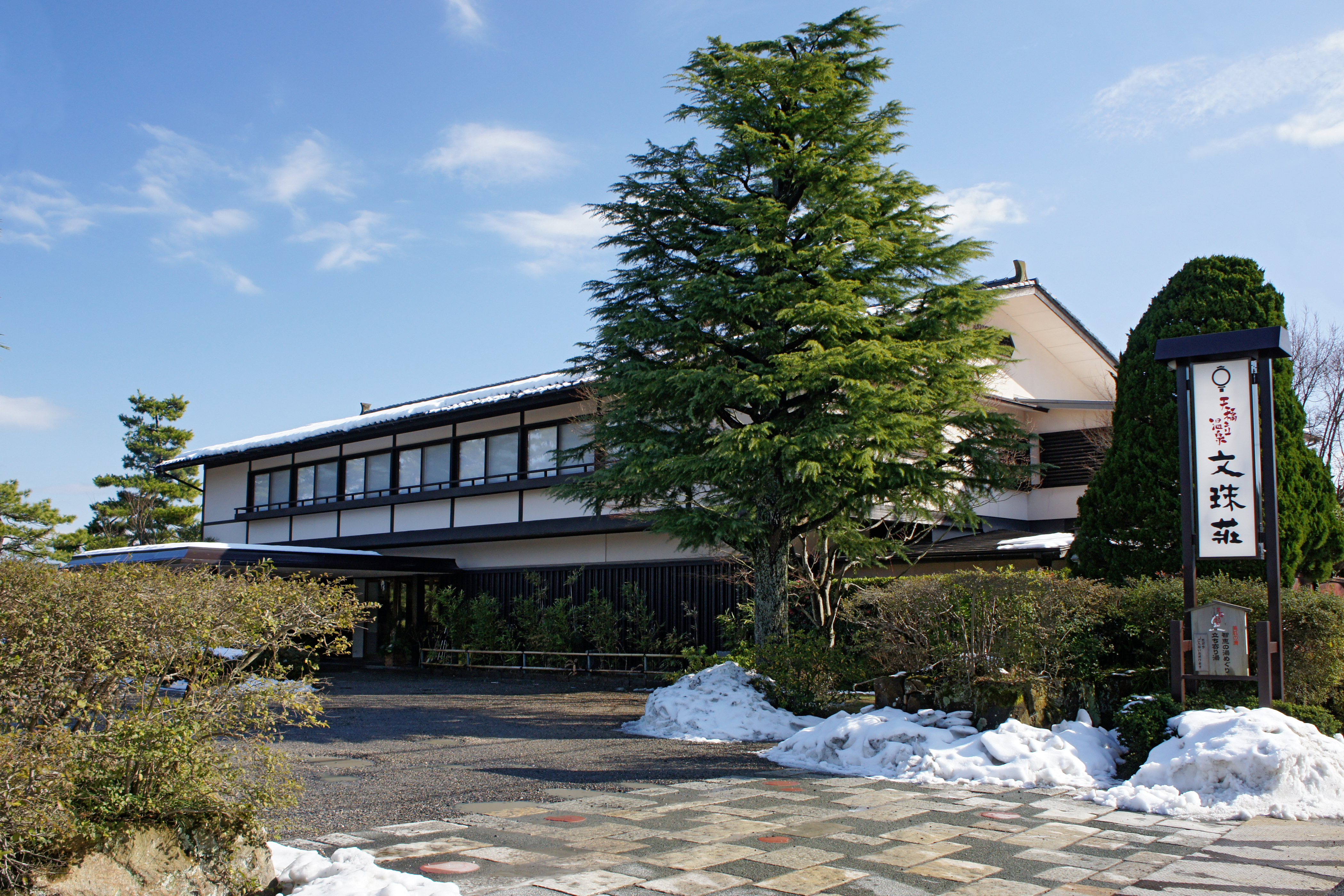 Ryokan "Monjuso" in Miyazu, Kyoto prefecture, Japan.